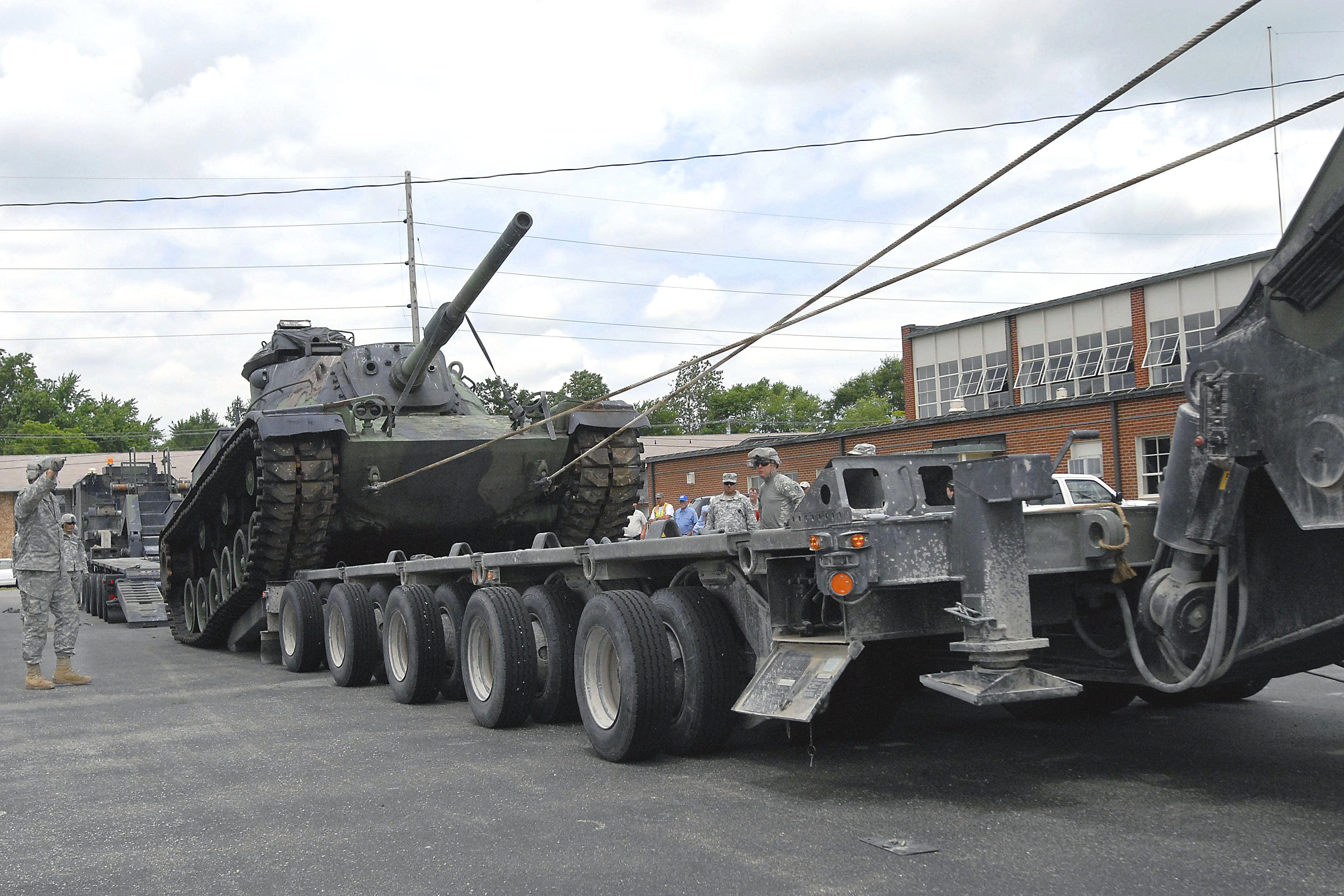 U.S. Army soldiers upload an M60 Patton Tank onto a vehicle designed to transport heavy equipment at the National Guard Armory in Bluffton, Ind., June 30, 2009. U.S. Army Photo by Spc. John Crosby